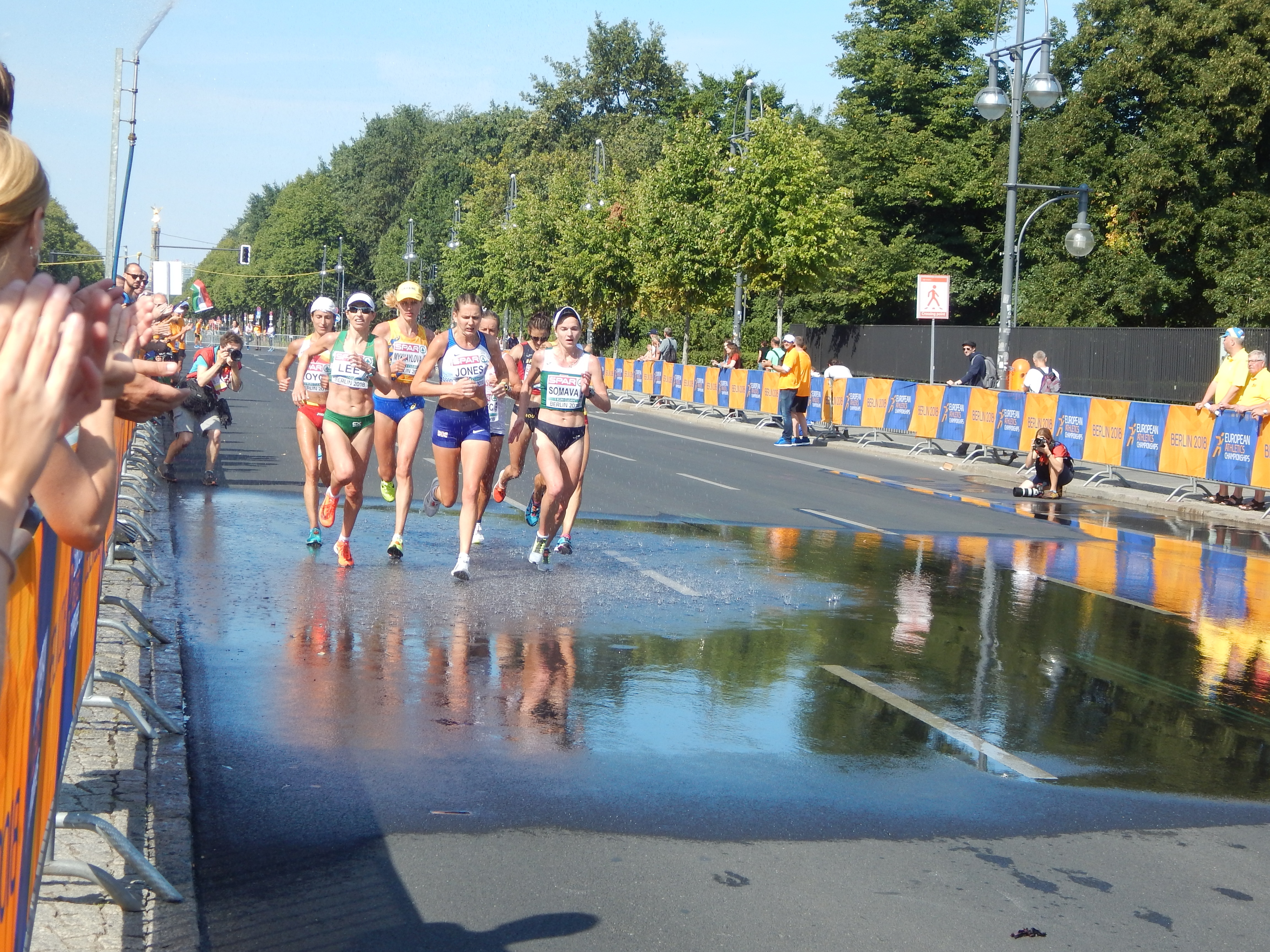 European Championships 2018 Marathon at Straße des 17. Juni